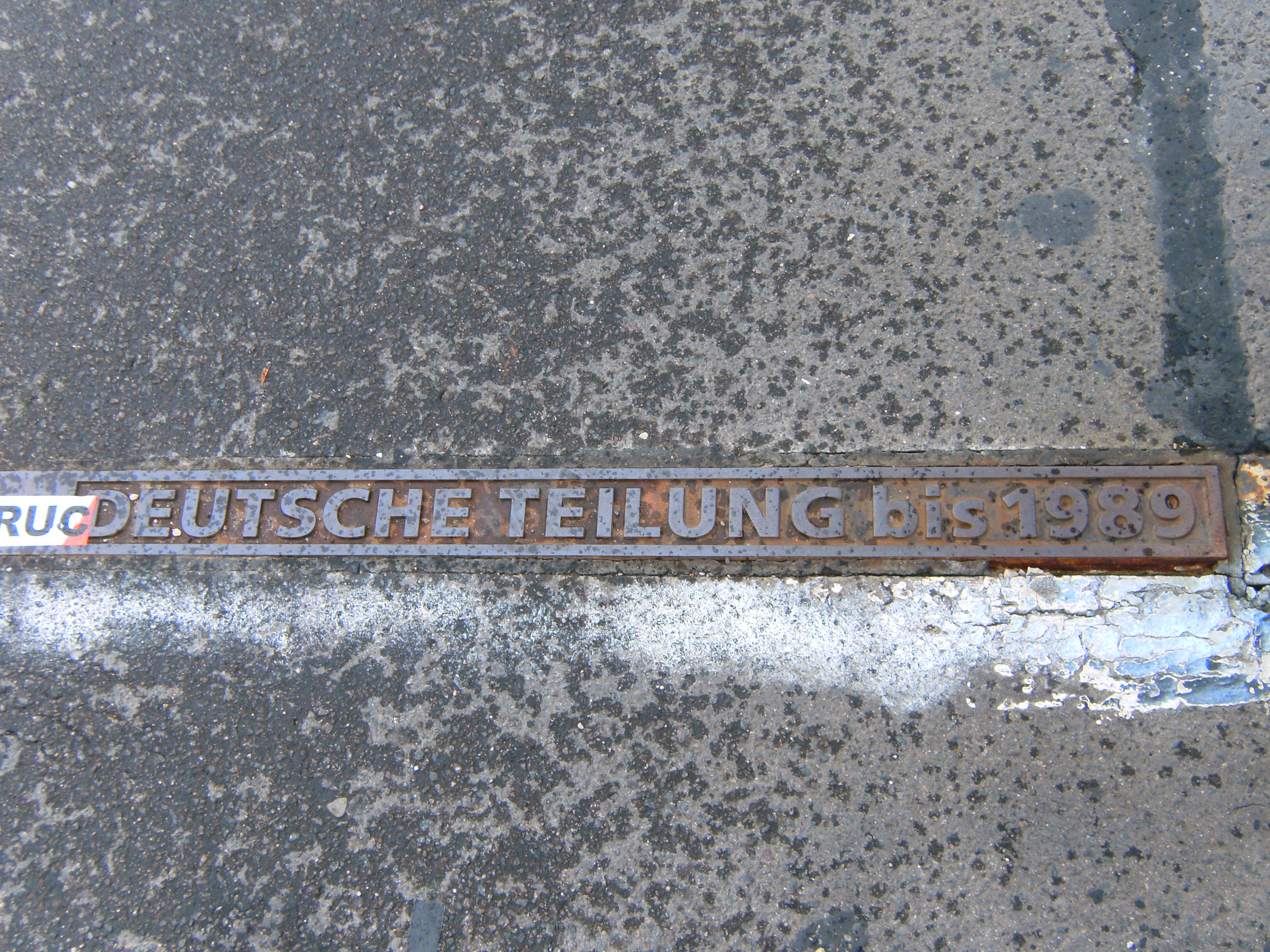 Glienicker Brücke (bridge). Border was in the mid of the Bridge. Plaque to remember.